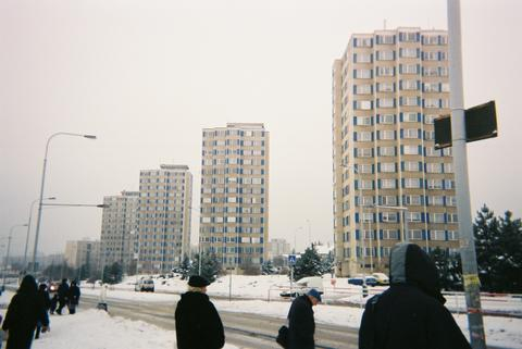 Prague-Kamýk, Durychova street, pannel tower houses Krhanická 719/25, 718/27, 717/29 a 716/31 seen from the bus stop Cílkova. - OpenStreetMap(Info)